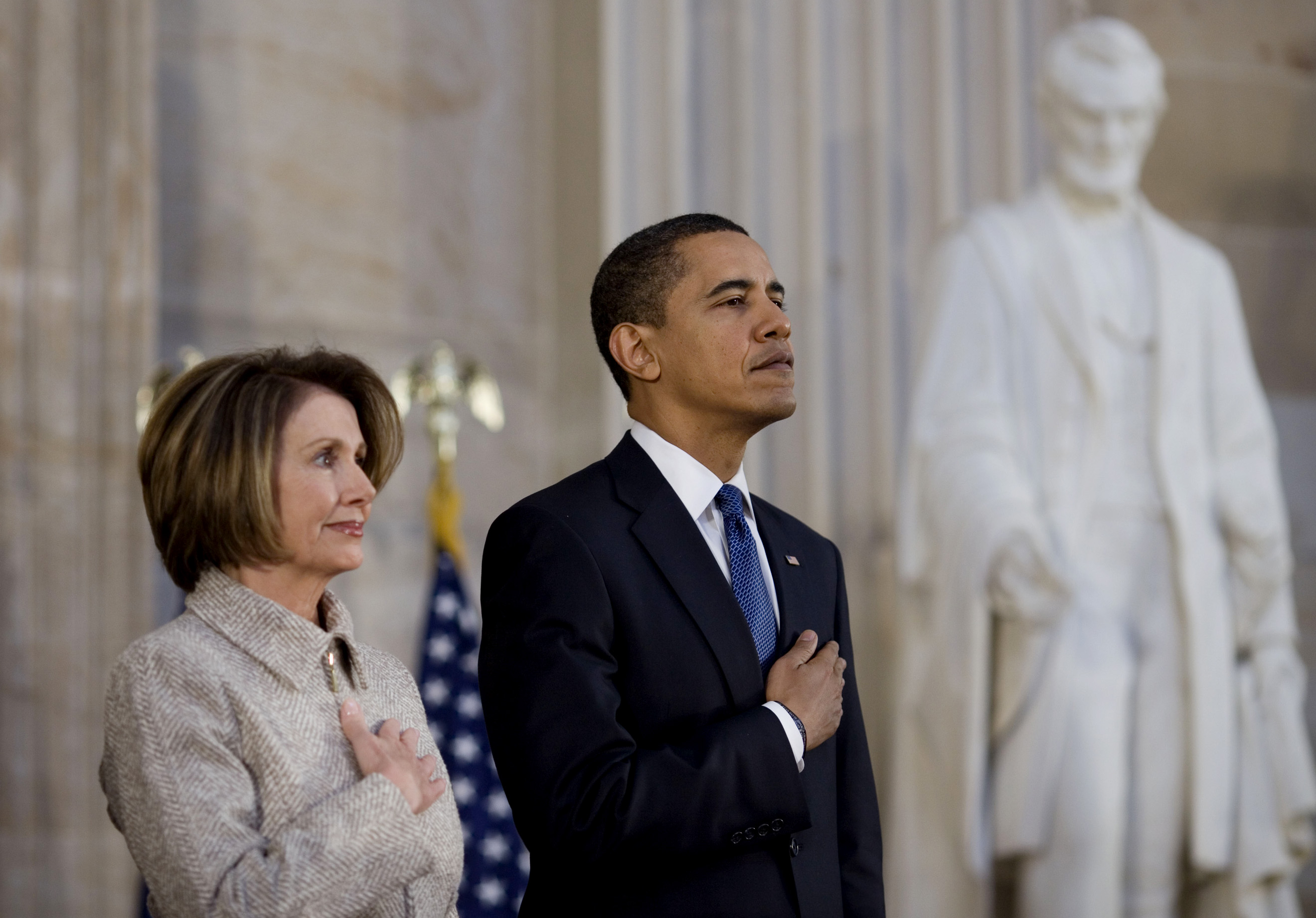 President Barack Obama and Speaker of the House Nancy Pelosi at the US Capitol.